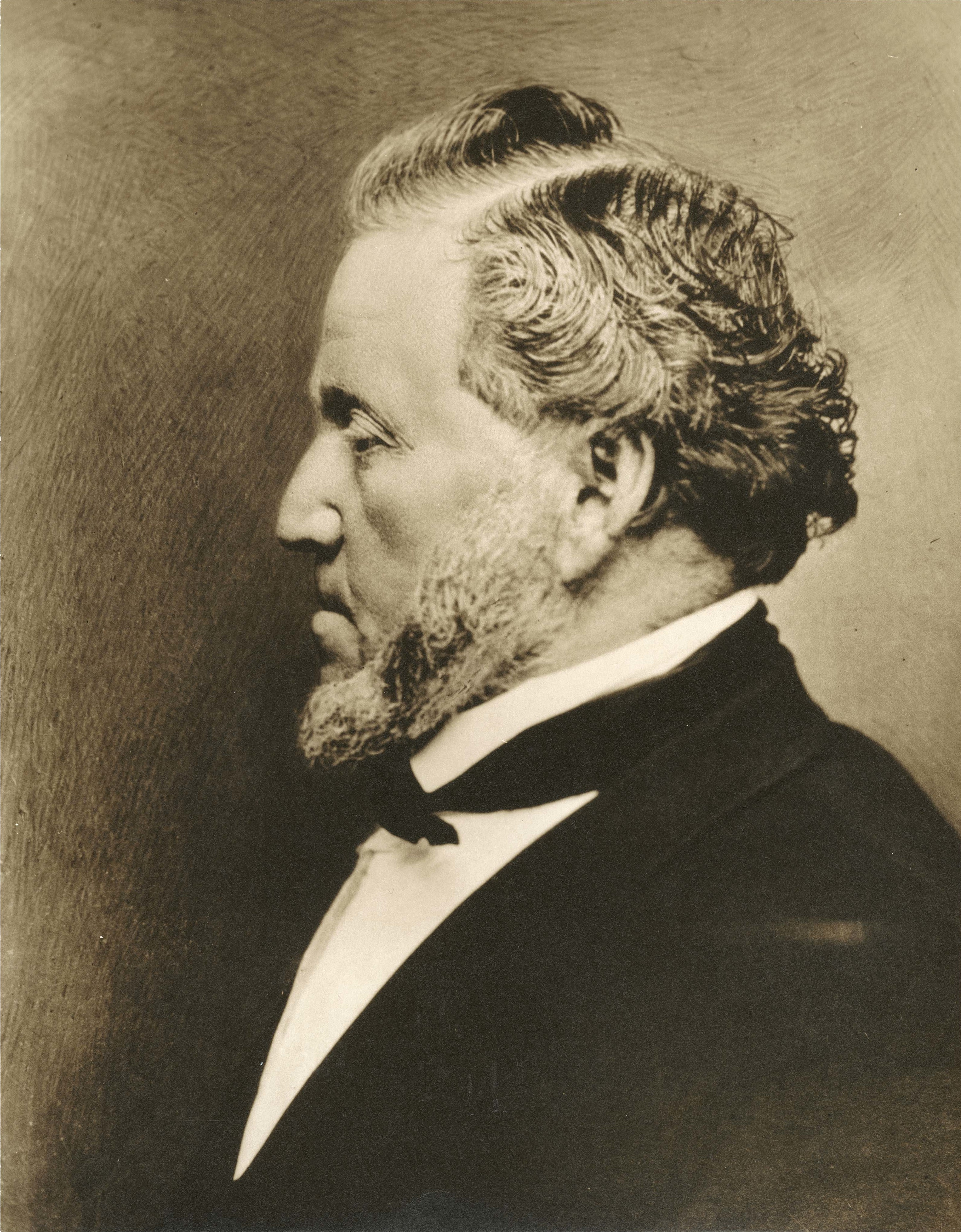 A bust portrait in profile of Brigham Young. Written on the back- Last Photo of Brigham Young. Sepia tone to photo. There is a negative that this print may have been made from in P-423.